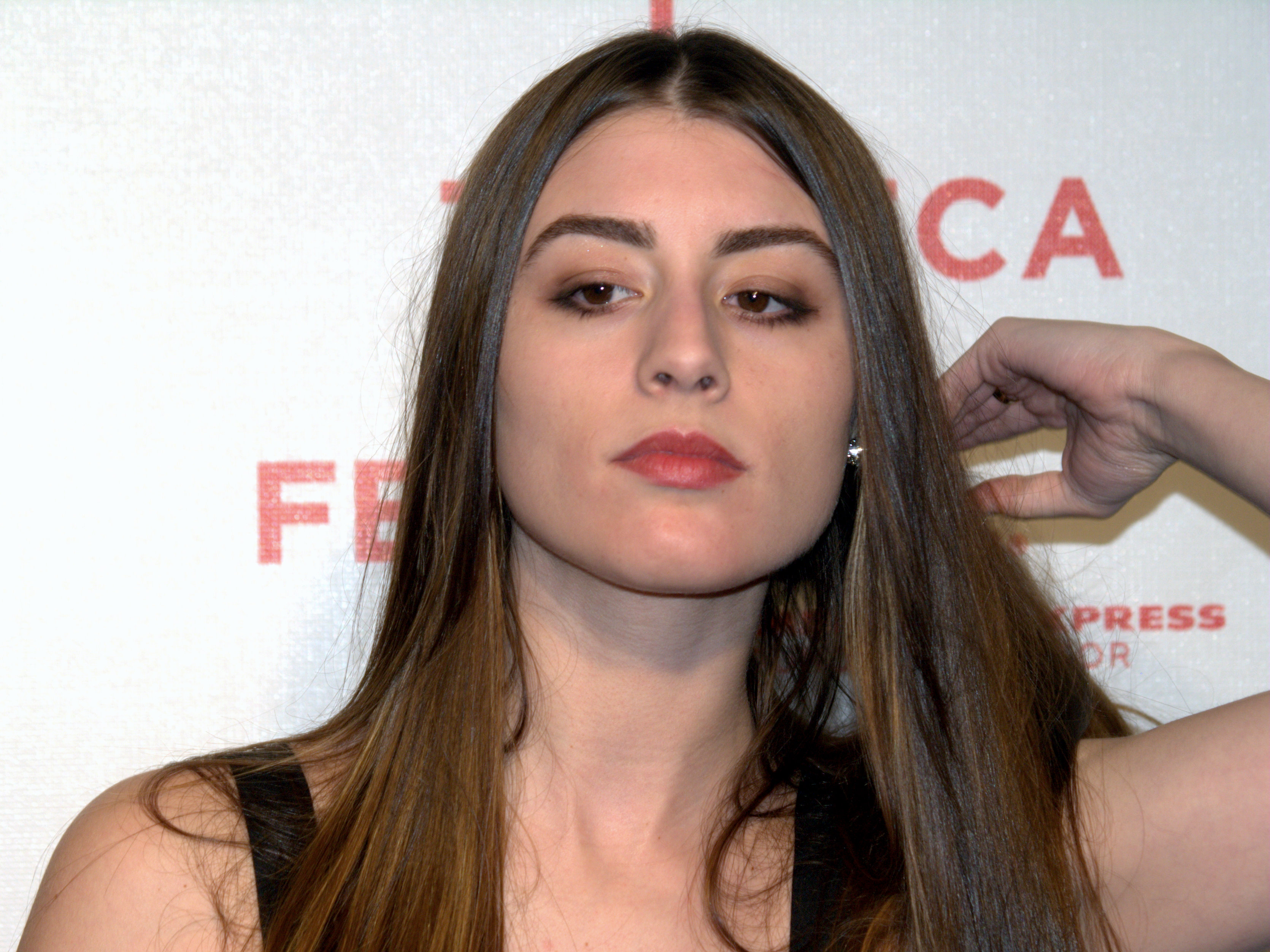 Actress Dominic Garcia-Lorido, daughter of Andy Garcia, at the 2009 Tribeca Film Festival for the premiere of City Island. Photographers blog post about the event for this photo.